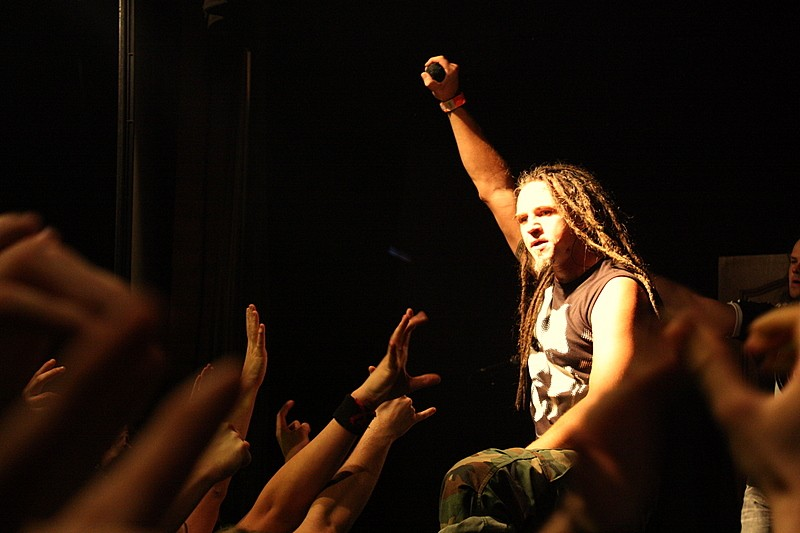 Black River, Lublin, Graffiti, 10.12.2008